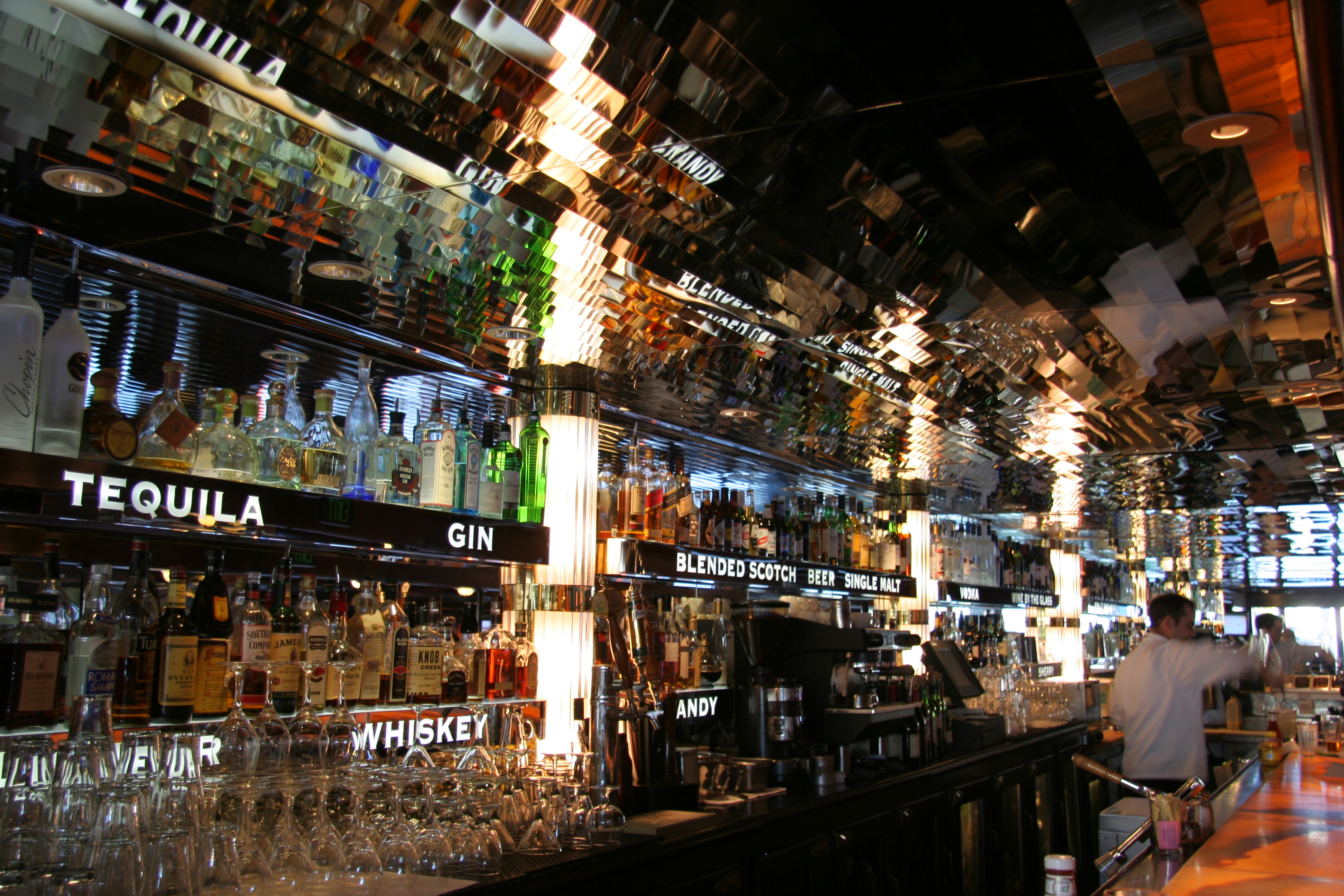 Sustenance before climbing the stairs on Telegraph Hill! Interior of bar in San Francisco.